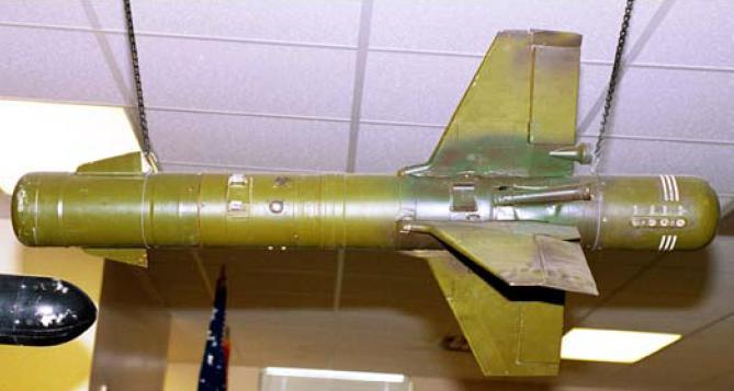 An AT-2C Swatter missile. from a pdf document on